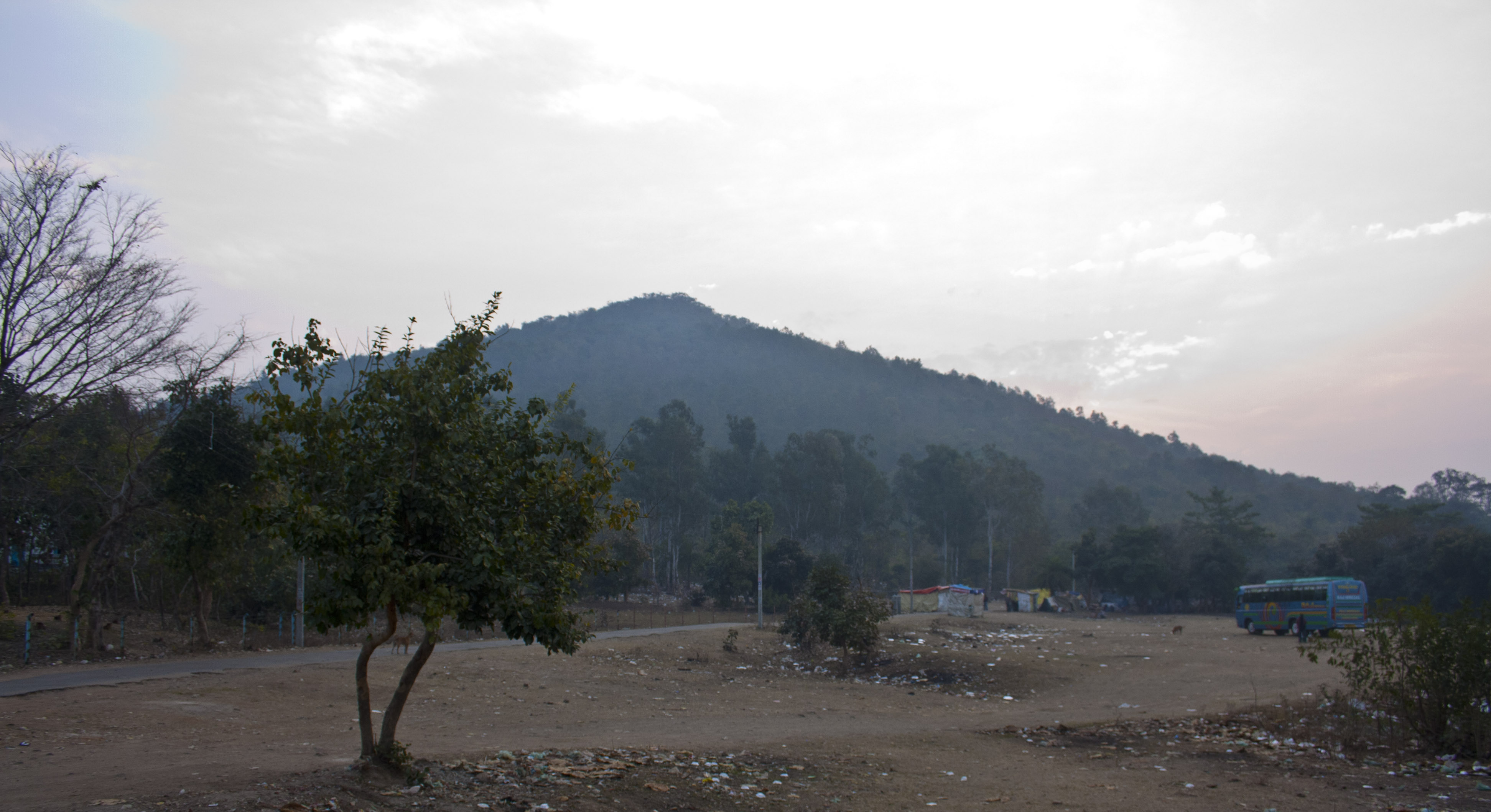 29RCCMAK - Susunia Hill and Photo has been takn during Basic Rock Climbing Course by MAK (Mountaineers Association of Krishnanagar) at Susunia Hill, Bankura, West Bengal